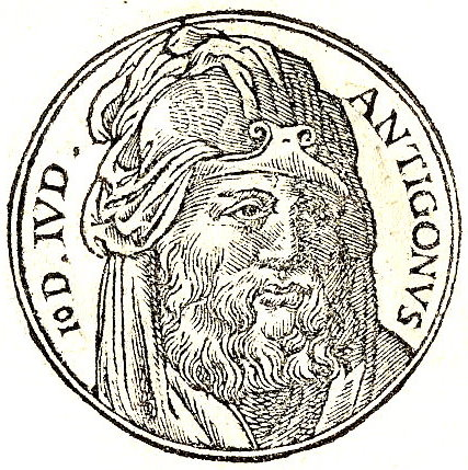 Antigonus II Mattathias was the son of King Aristobulus II of Judea.